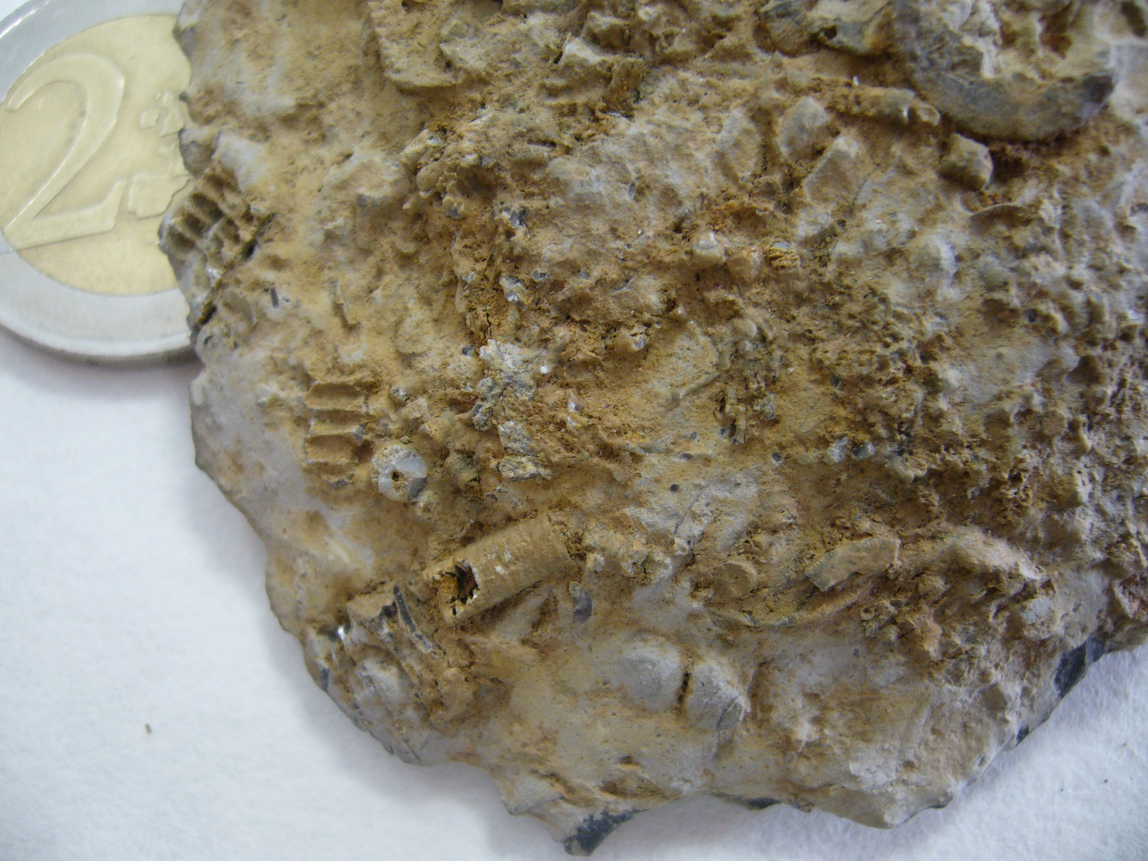 Limestone of crinoids in a laboratory of practices of the Faculty of Sciences of the University of Corunna.